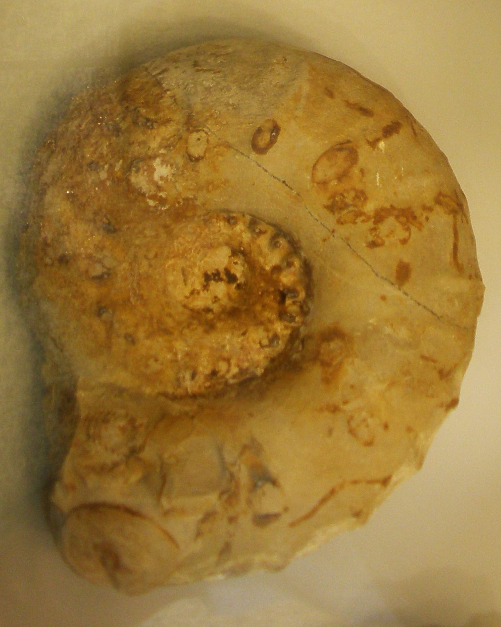 fossil Aspidoceras species. Took the photo at the Paleontology Museum of Zurich